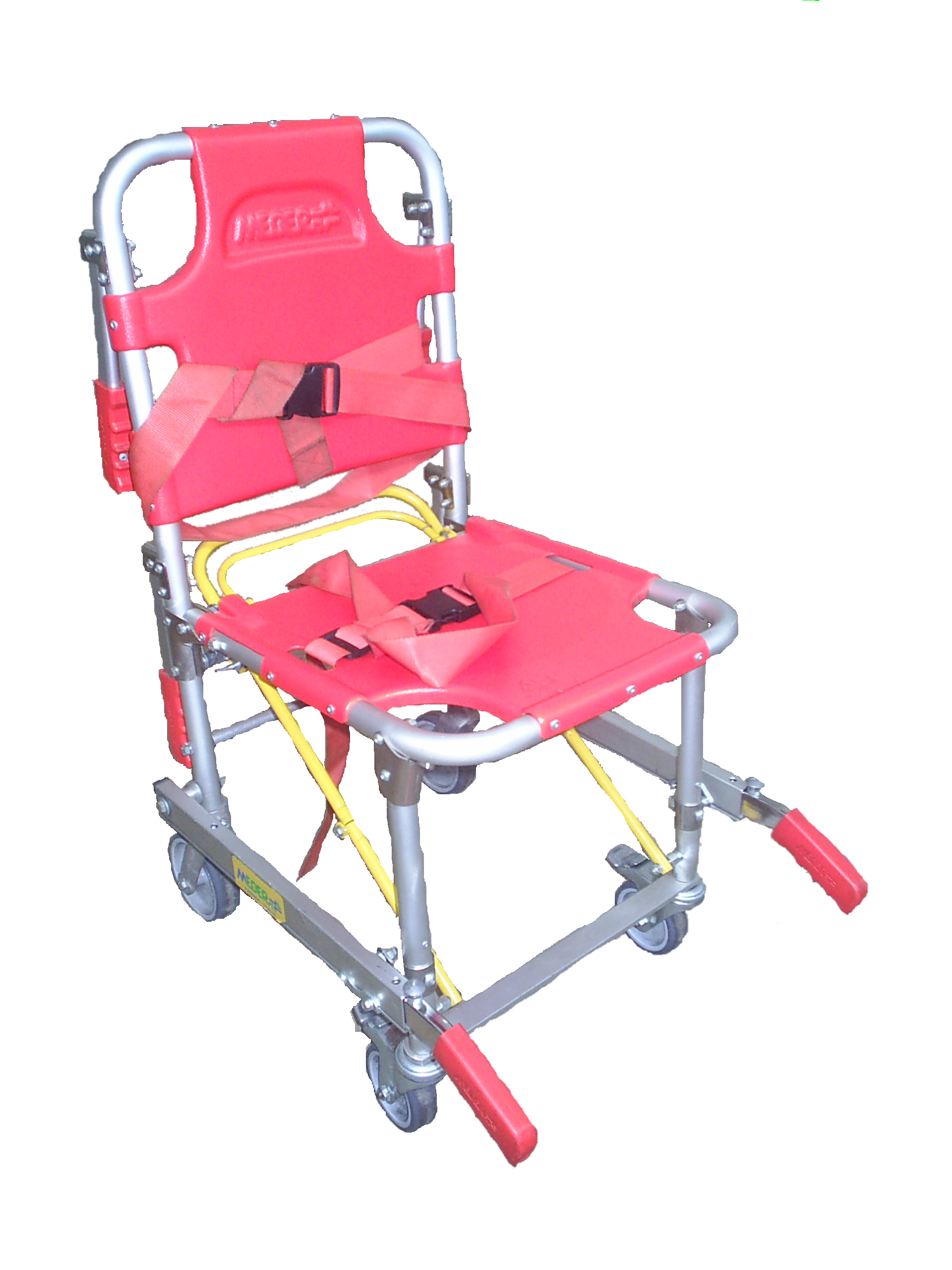 Escape (or evacuation) chair